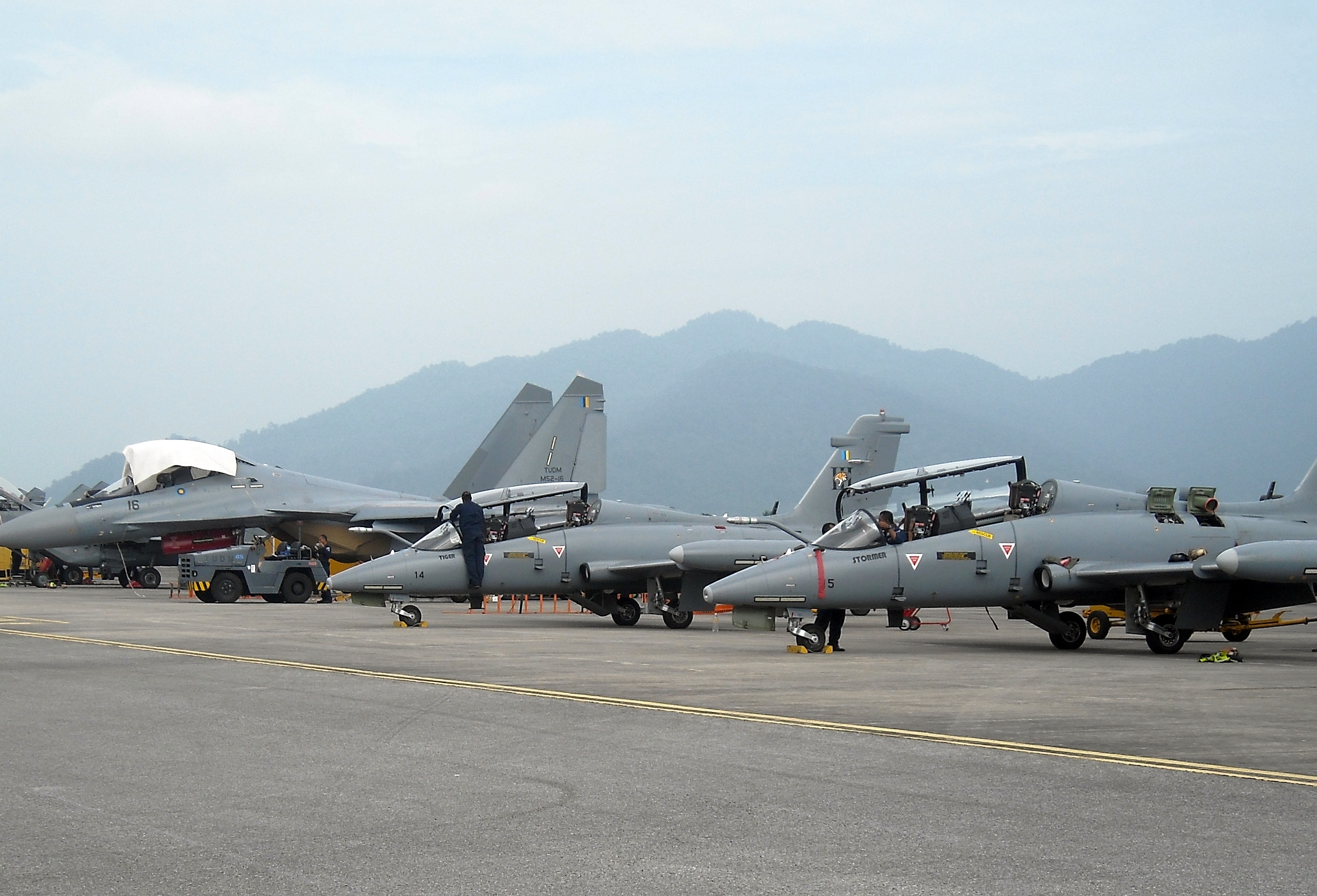 The Russian-made Sukhoi Su-30MKM Flankers serial number M52 and Mig-29s and Aermacchi MB-339s of Royal Malaysian Air Force at Langkawi International Maritime and Aerospace Exhibition 2009 or LIMA 2009 at Langkawi Airport. Taken by me at Langkawi Airport, Langkawi, Kedah, Malaysia.